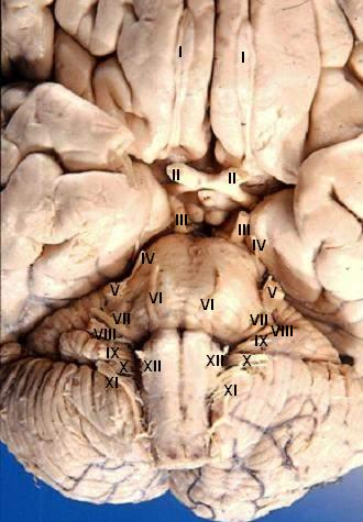 Human brain - anterior-inferior view - cerebral nerves I. N. olfactorius - The fila olfactoria (approximately 20 nerve rootlets on each side) comprise the Olfactory nerves (I) which run from the olfactory receptors in the nasal cavity to the olfactory bulb. II. N. opticus - The Optic nerves (II) are large & join at the midline to form the optic chiasm, then continue laterally as the optic tracts. The optic nerve is not a true nerve but rather a CNS tract. III. N. oculomotorius - The Oculomotor nerves (III) emerge from a depression in the midbrain, the interpeduncular fossa, just caudal to the optic chiasm. IV. N. trochlearis - The Trochlear nerves (IV) are small & are seen on the lateral surface of the midbrain. They are the only nerves which exit from the posterior side of the brain. V. N. trigeminus - The Trigeminal nerves (V) are large and emanate from the lateral surface of the pons. VI. N. abducens - The Abducens nerves (VI) exit near the midline from the inferior pontine sulcus which separates the pons from the medulla. VII. N. facialis - Moving laterally in the inferior pontine sulcus, the Facial nerves (VII) can be seen. VIII. N. vestibulocochlearis - Slightly lateral to the facial nerve is the Vestibulocochlear nerve (VIII). IX. N. glossopharyngeus - The postolivary sulcus is a groove running rostrocaudally on the lateral surface of the medulla. From this sulcus pass the small Glossopharyngeal nerves (IX) rostrally and... X. N. vagus - ...the much larger Vagus nerves (X) caudally. XI. N. accessorius - The Spinal Accessory nerves (XI) exit the cervical cord then pass rostrally through the foramen magnum to exit the cranial vault with the lossopharyngeal and vagus nerves. XII. N. hypoglossus - The Hypoglossal nerves (XII) exit the medulla via the preolivary sulcus. (font: arial black, size: 10)